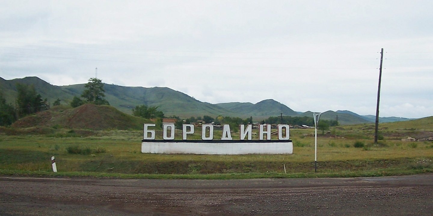 Borodino sign on the entrance to settlemnet. Khakassia.